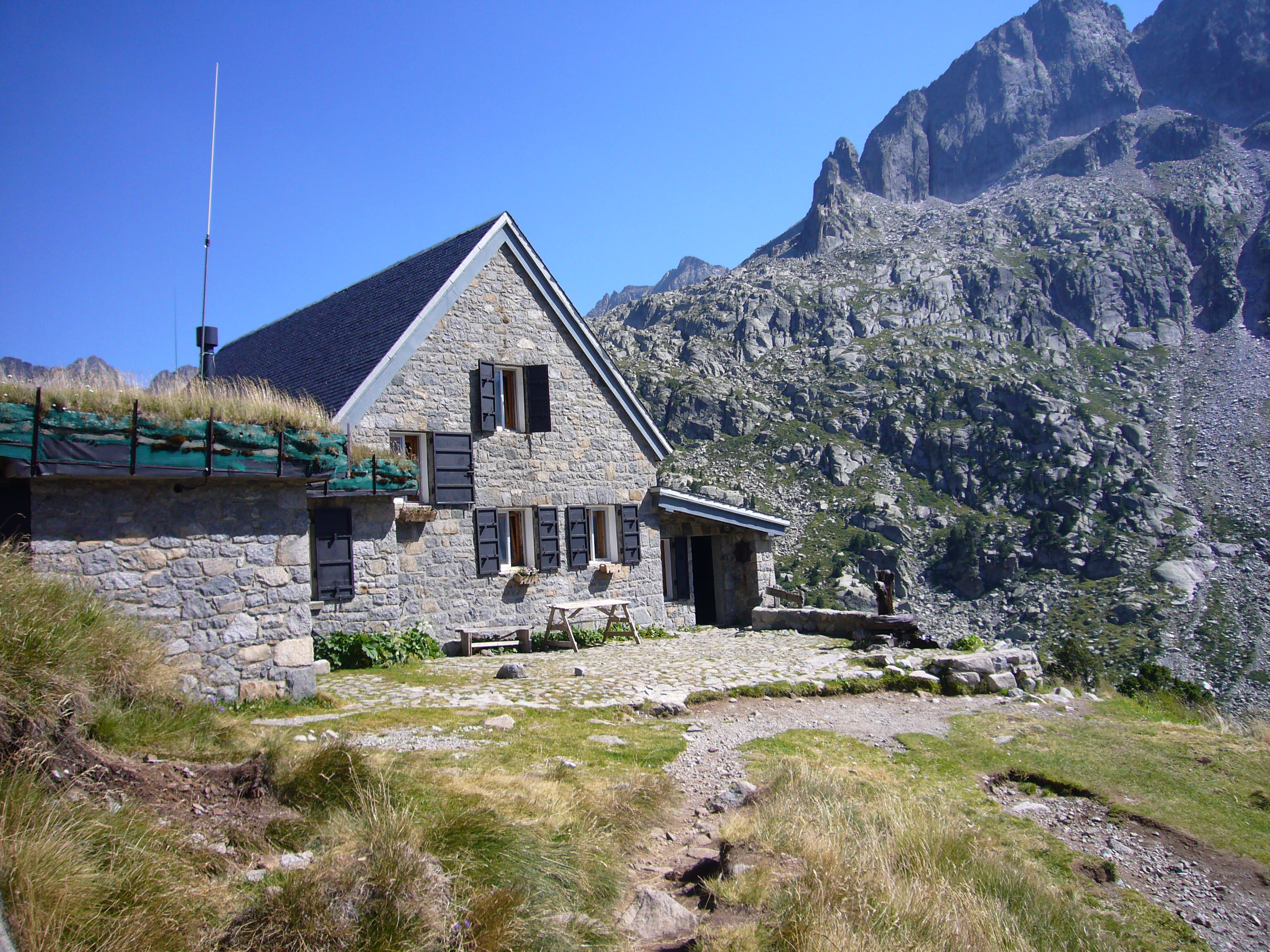 Refugi Joan Ventosa i Calvell, la Vall de Boí, Alta Ribagorça, Catalonia